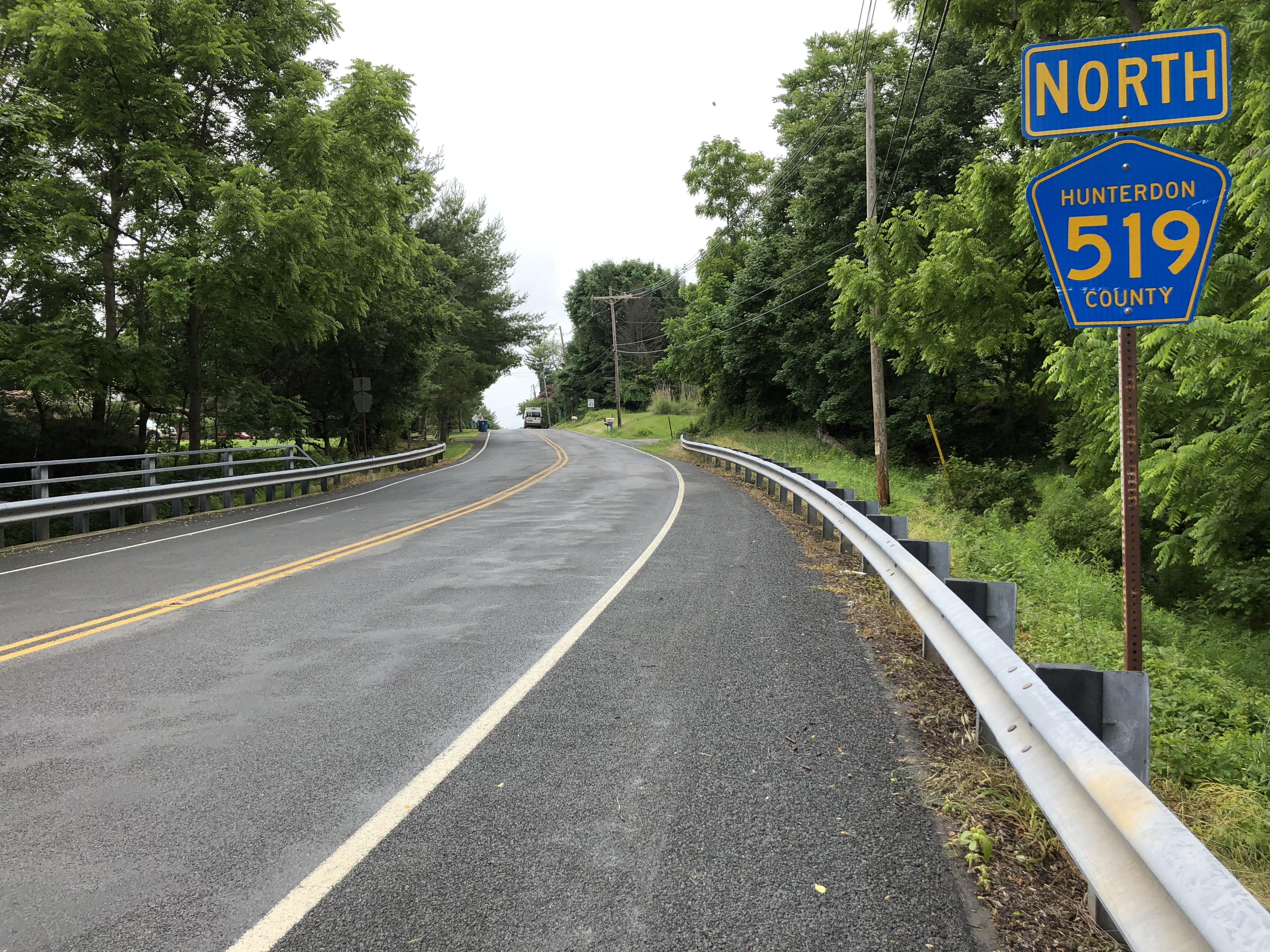 View north along Hunterdon County Route 519 (Milford-Mount Pleasant Road) just north Little York-Mount Pleasant Road in Holland Township, Hunterdon County, New Jersey